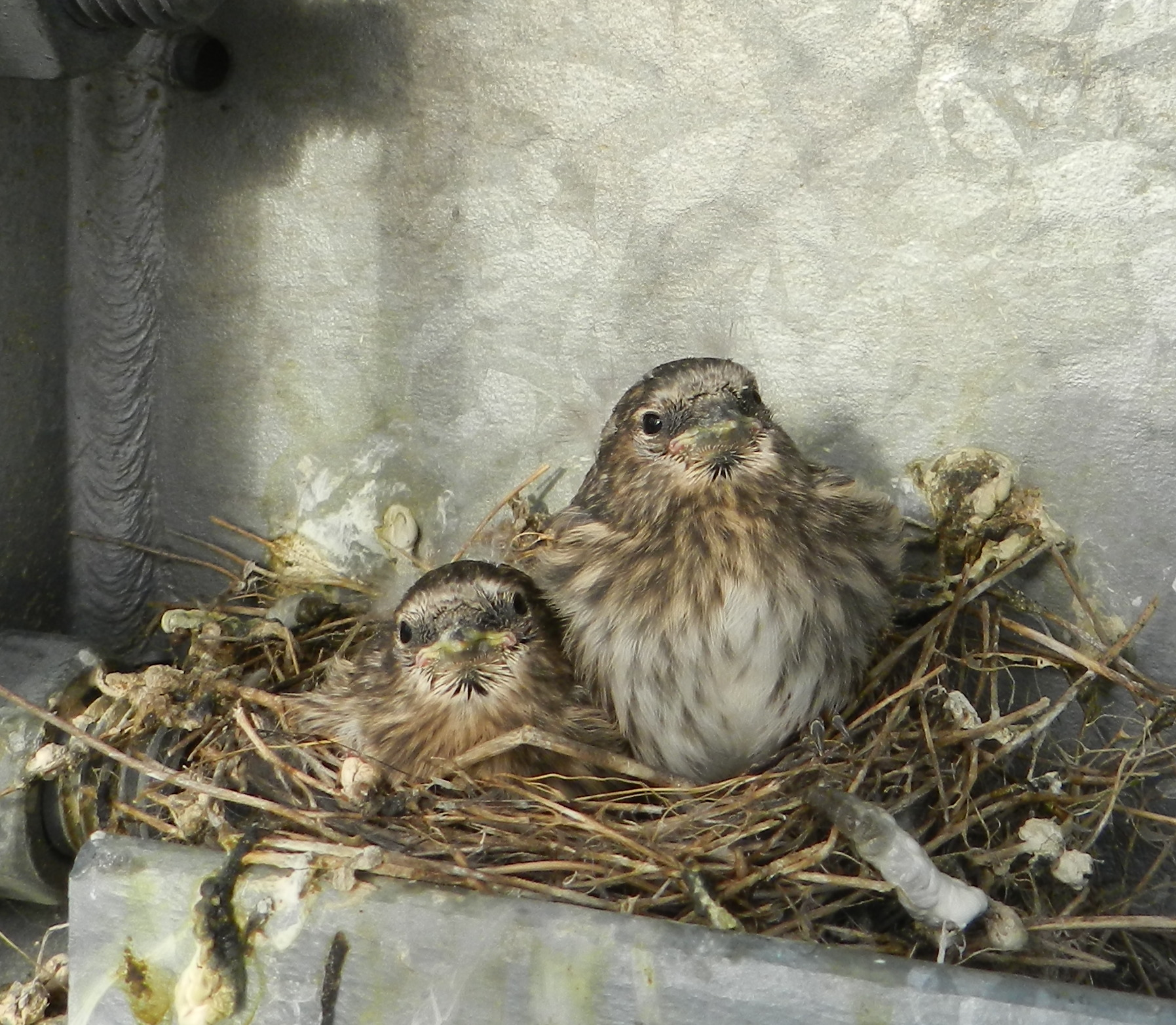 Snow bunting chicks